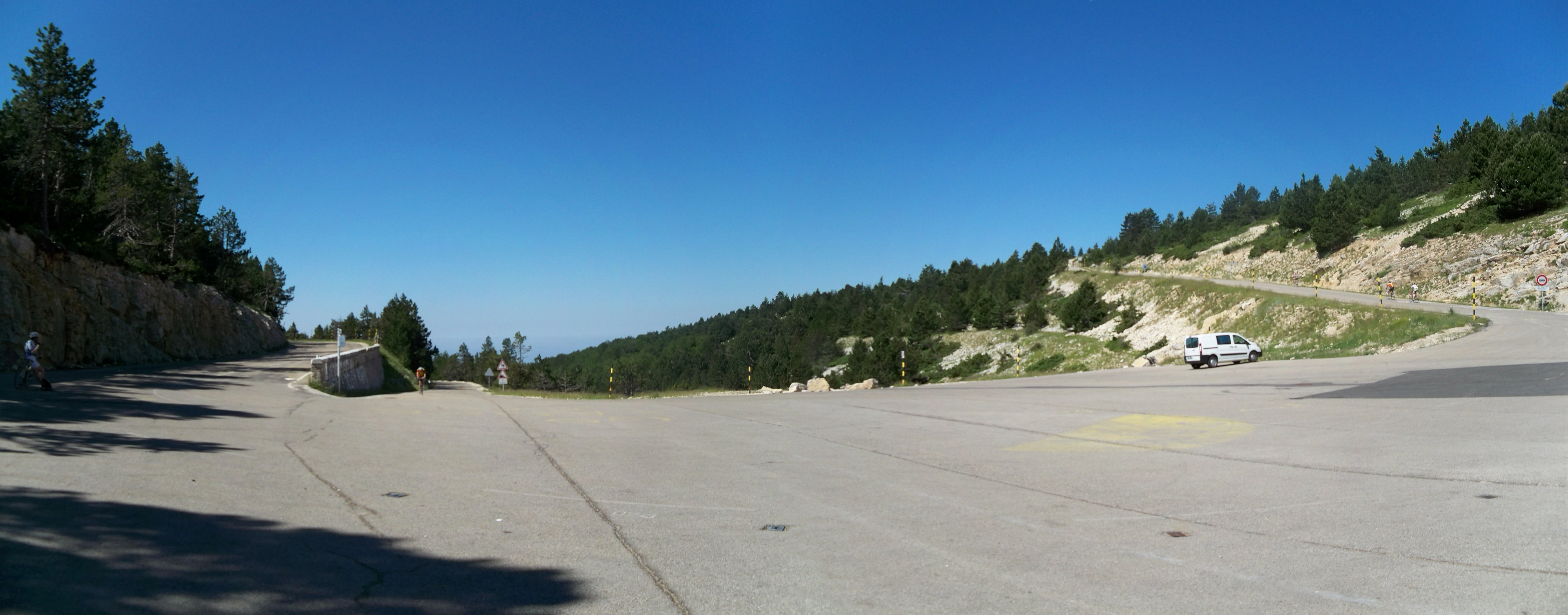 Cross road behin Chalet Reynard (south of Mont Ventoux) left road : direction Sault - right road : to the top of Mont Ventoux - in the middle : road to Bédoin